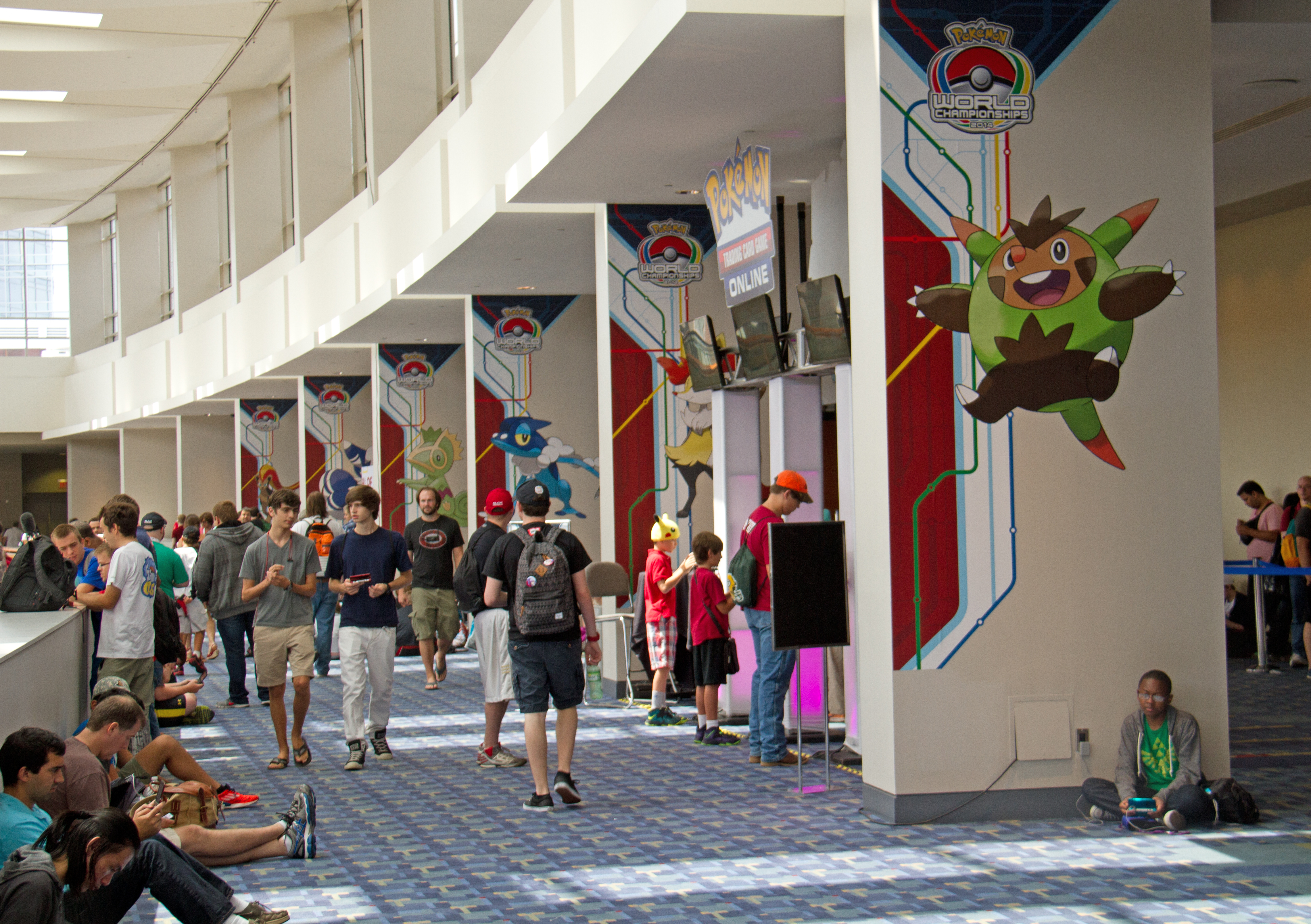 The hall of Nintendo's Pokémon World Championships 2014. Many children with DS handheld consoles are seen